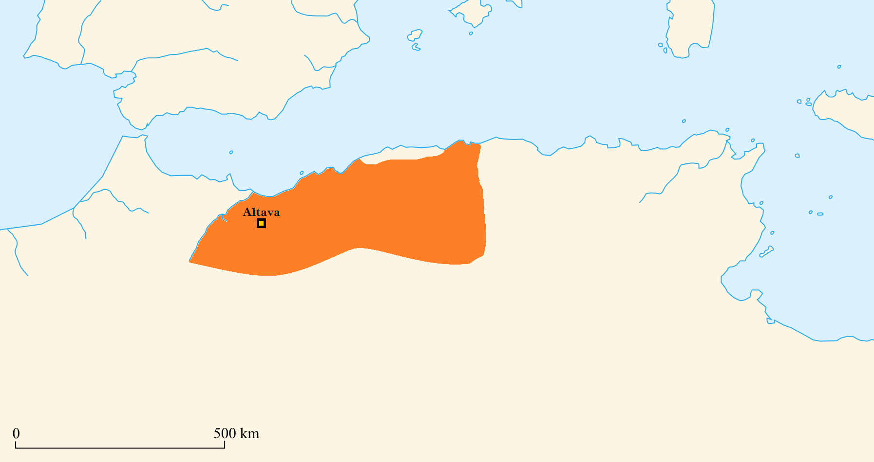 Map of the Mauro-Roman Kingdom based on link and using link 2 as a basemap